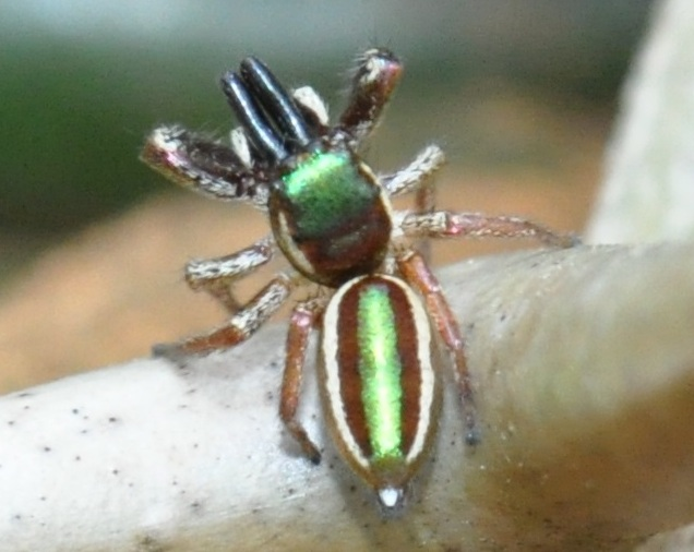 Male Bagheera kiplingi in Yucatan, Mexico